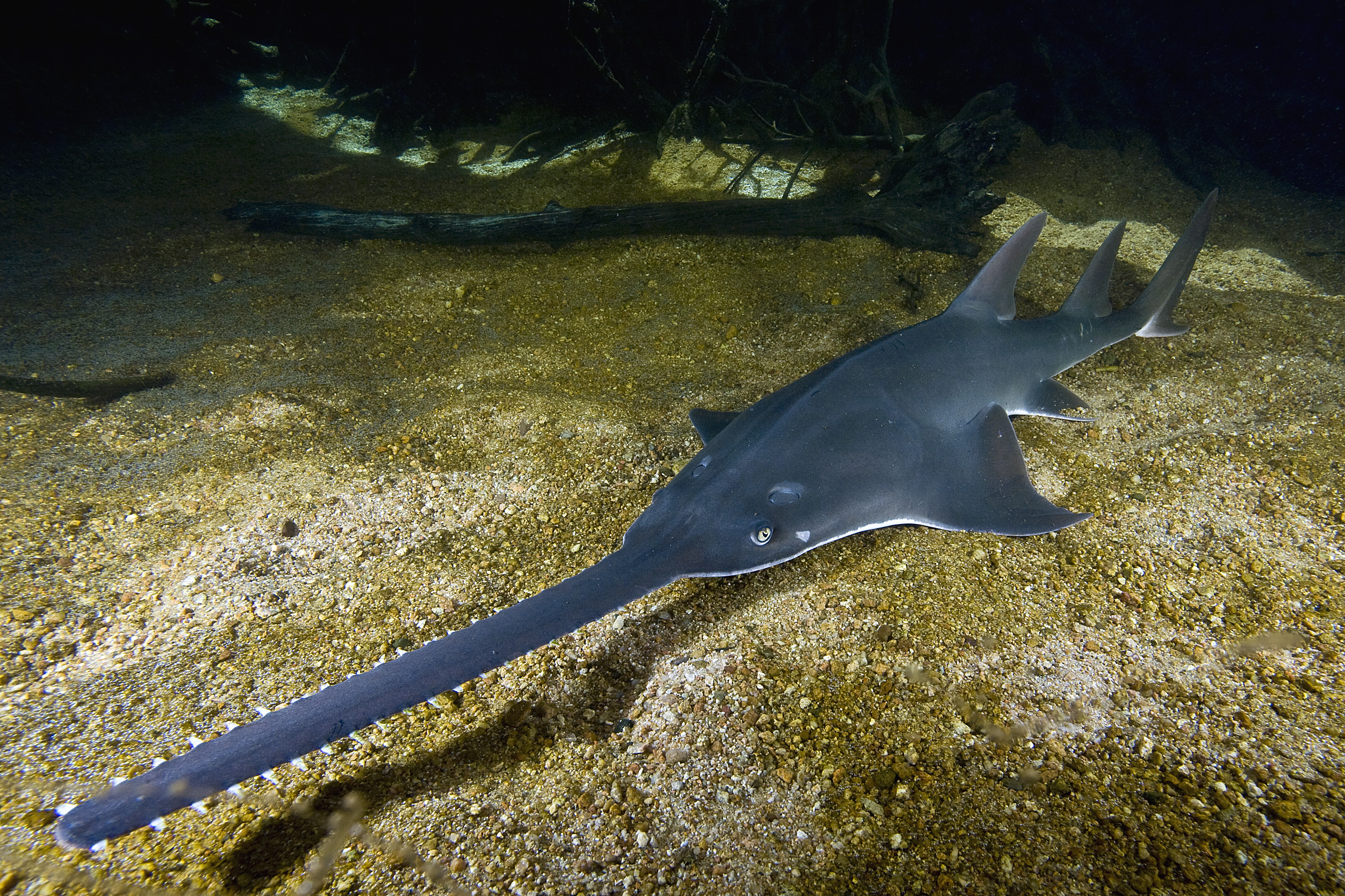 Freshwater sawfish (Pristis pristis) in the Townsville region, Queensland